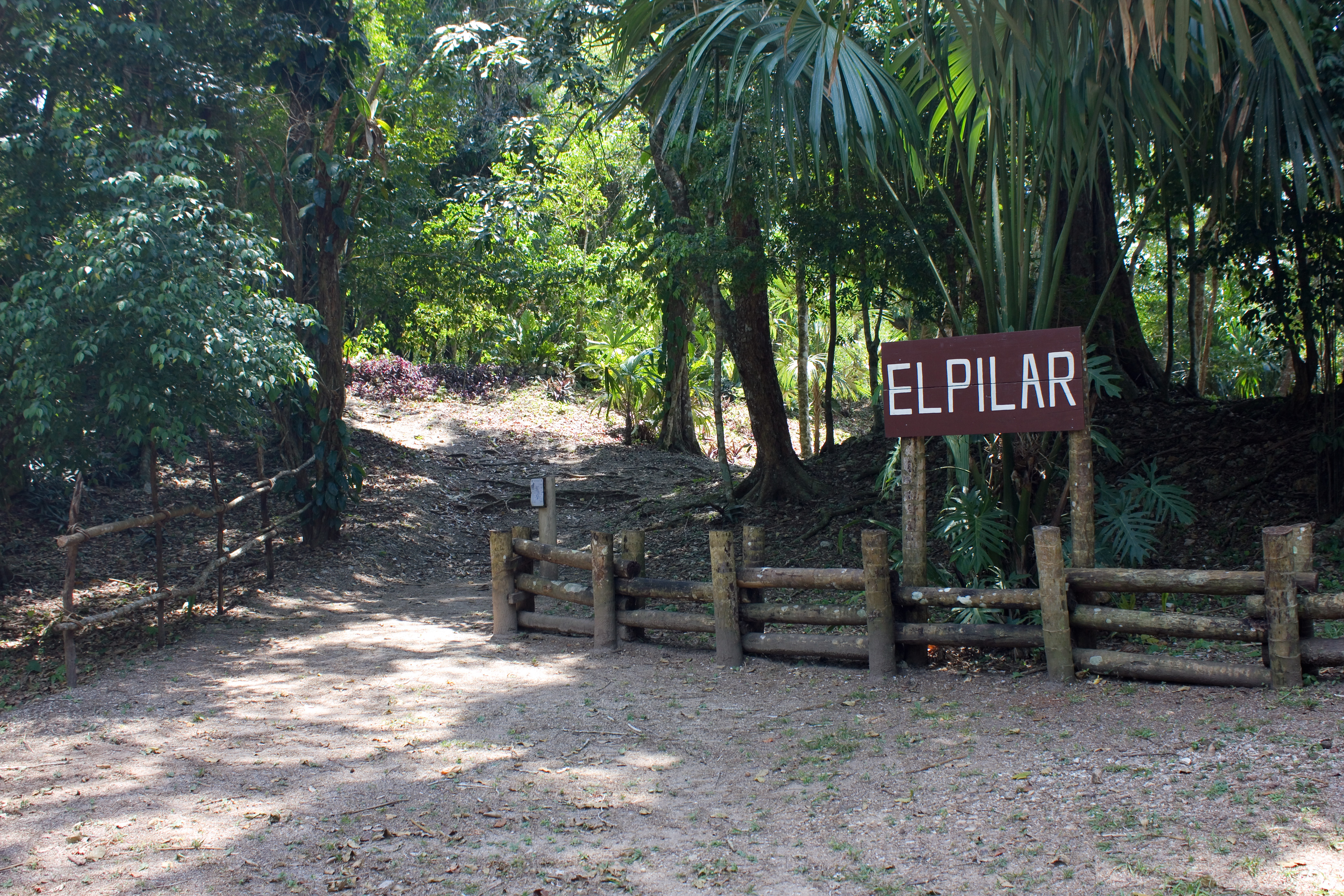 An entrance to El Pilar (Belize side)